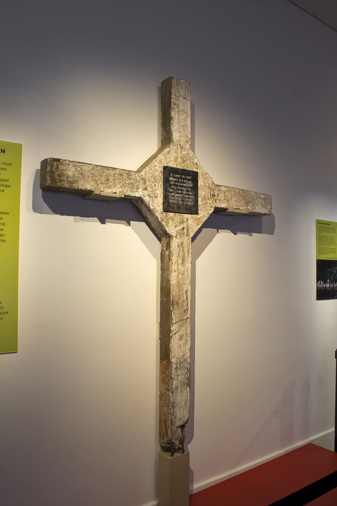 The Long Tan Cross on display at the Australian War Memorial. The cross is currently on loan from the Dong Nai Museum in Vietnam until April 2013.